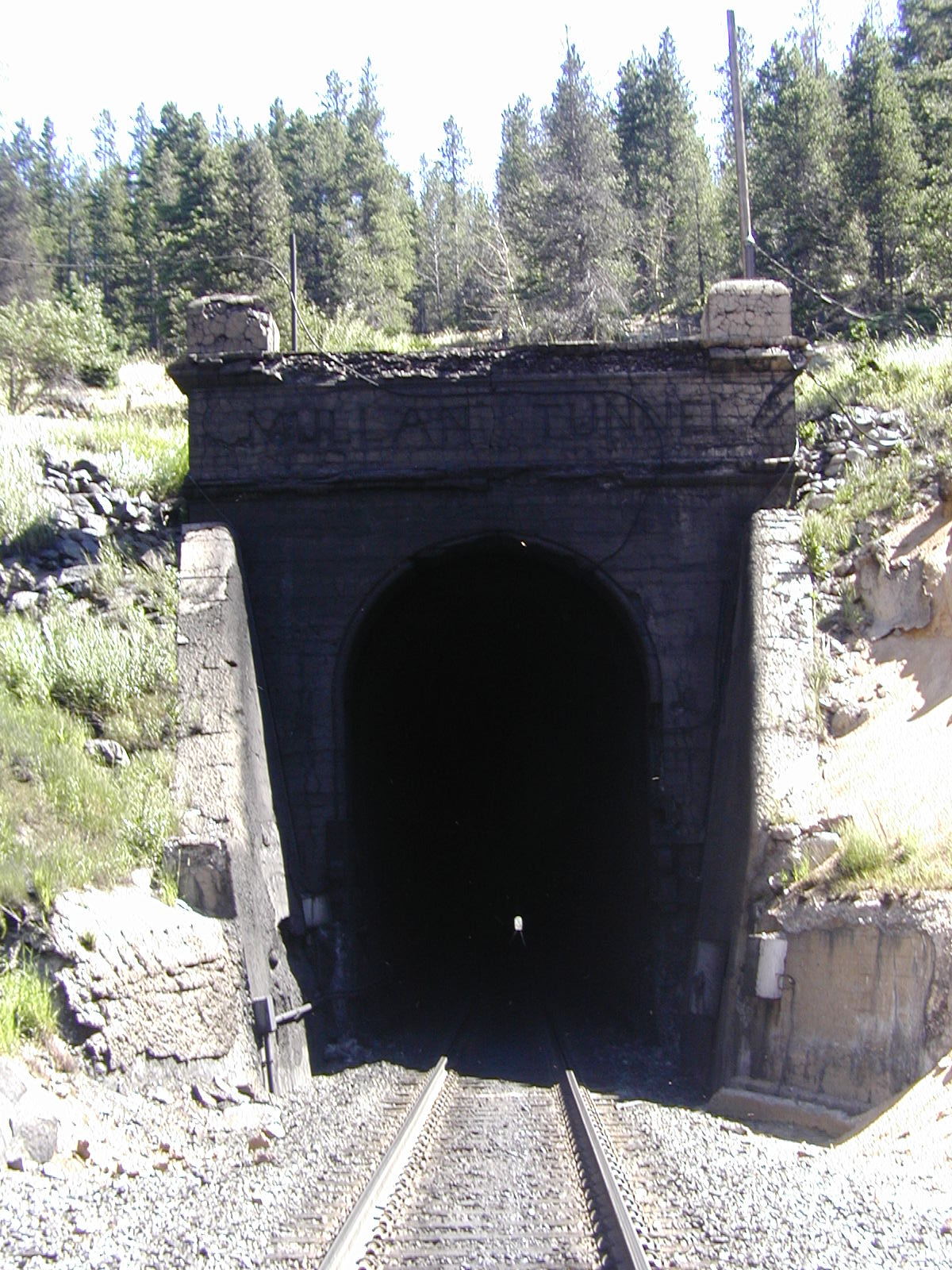 West portal of Mullan Tunnel, prior to being enlarged, beginning May 2009.